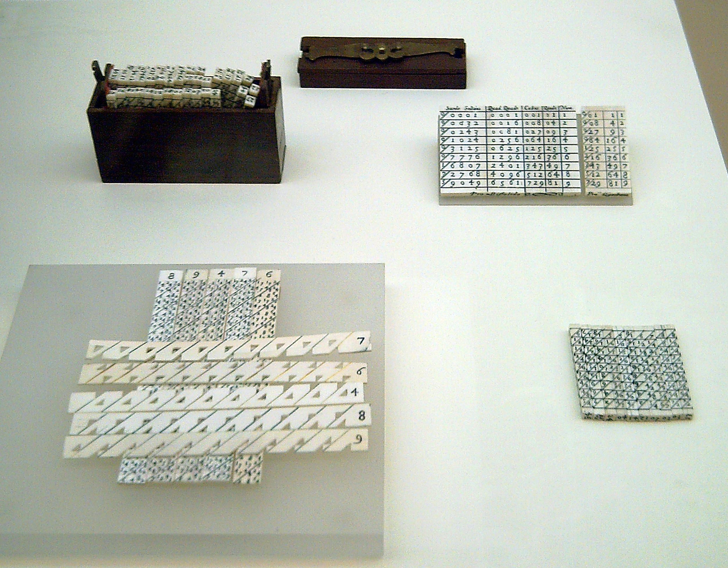 Ivory pieces of two Napier's abacuses, based on models designed by Scottish mathematician John Napier (1550-1617): the so-called "Napier's bones" and a more complex one named Promptuary.